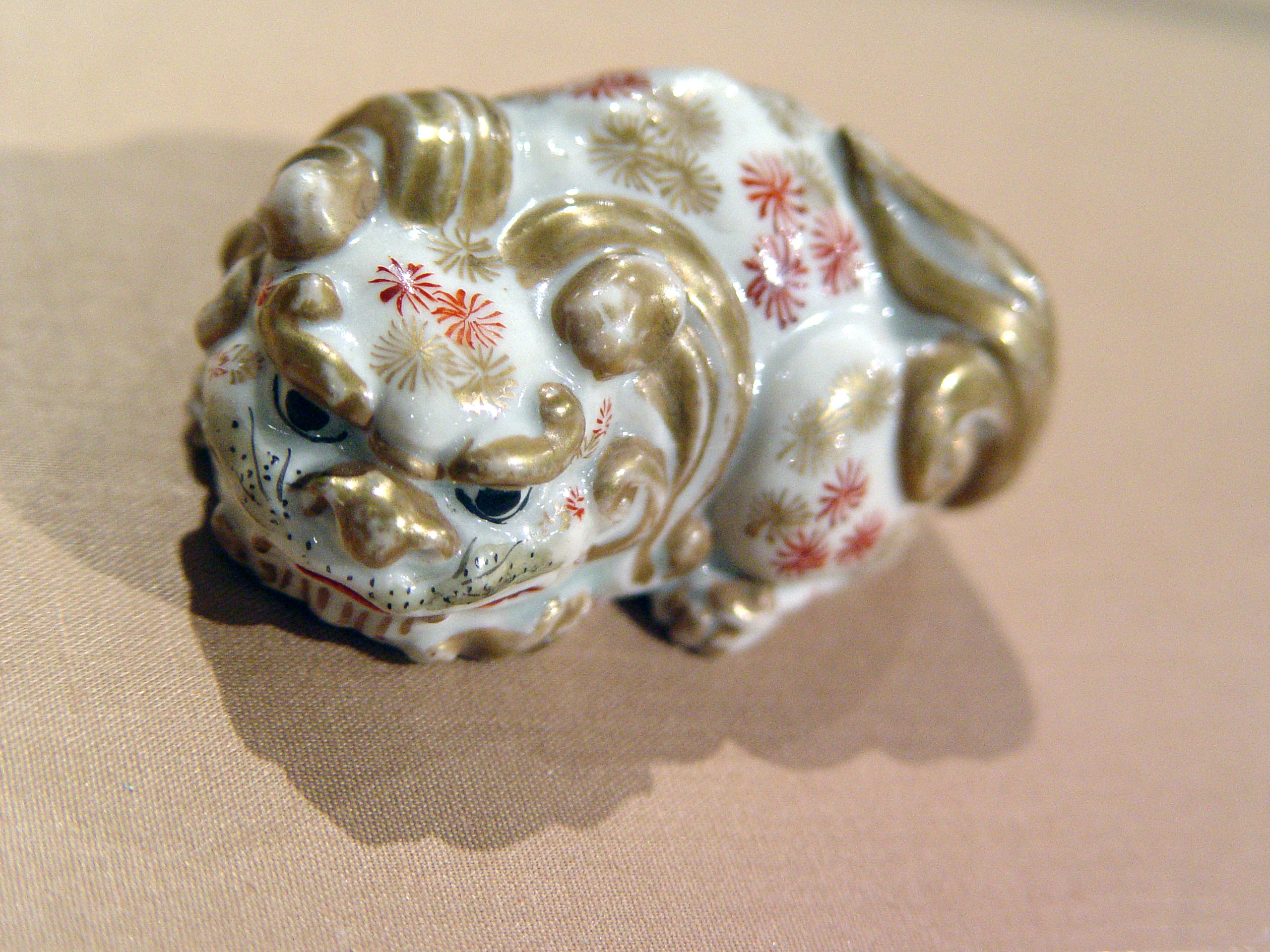 Japan Chinese Lion, 19th century Netsuke, Arita ware; porcelain with red overglaze and gold enamels, 2 5/16 x 1 9/16 x 1 1/8 in. (5.9 x 4.0 x 2.9 cm) Raymond and Frances Bushell Collection (M.87.263.71) Wikipedia Loves Art at the Los Angeles County Museum of Art This photo of item # M.87.263.71 at the Los Angeles County Museum of Art was contributed under the team name "Team_A" as part of the Wikipedia Loves Art project in February 2009. Los Angeles County Museum of Art The original photograph on Flickr was taken by howcheng—please add a comment to the original Flickr page whenever a use has been made on Wikipedia or another project. Project galleries on Flickr: this institution, this team